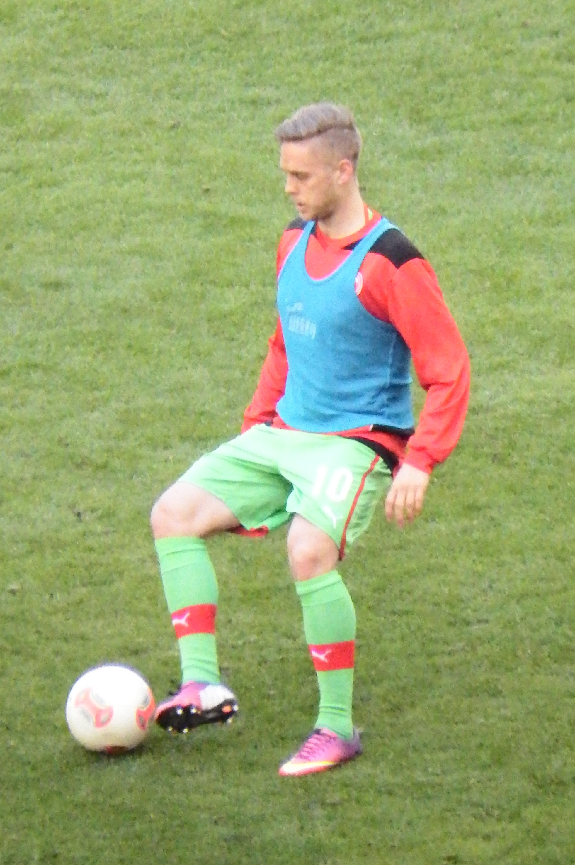 Ken Ilsø as Player from Fortuna Düsseldorf